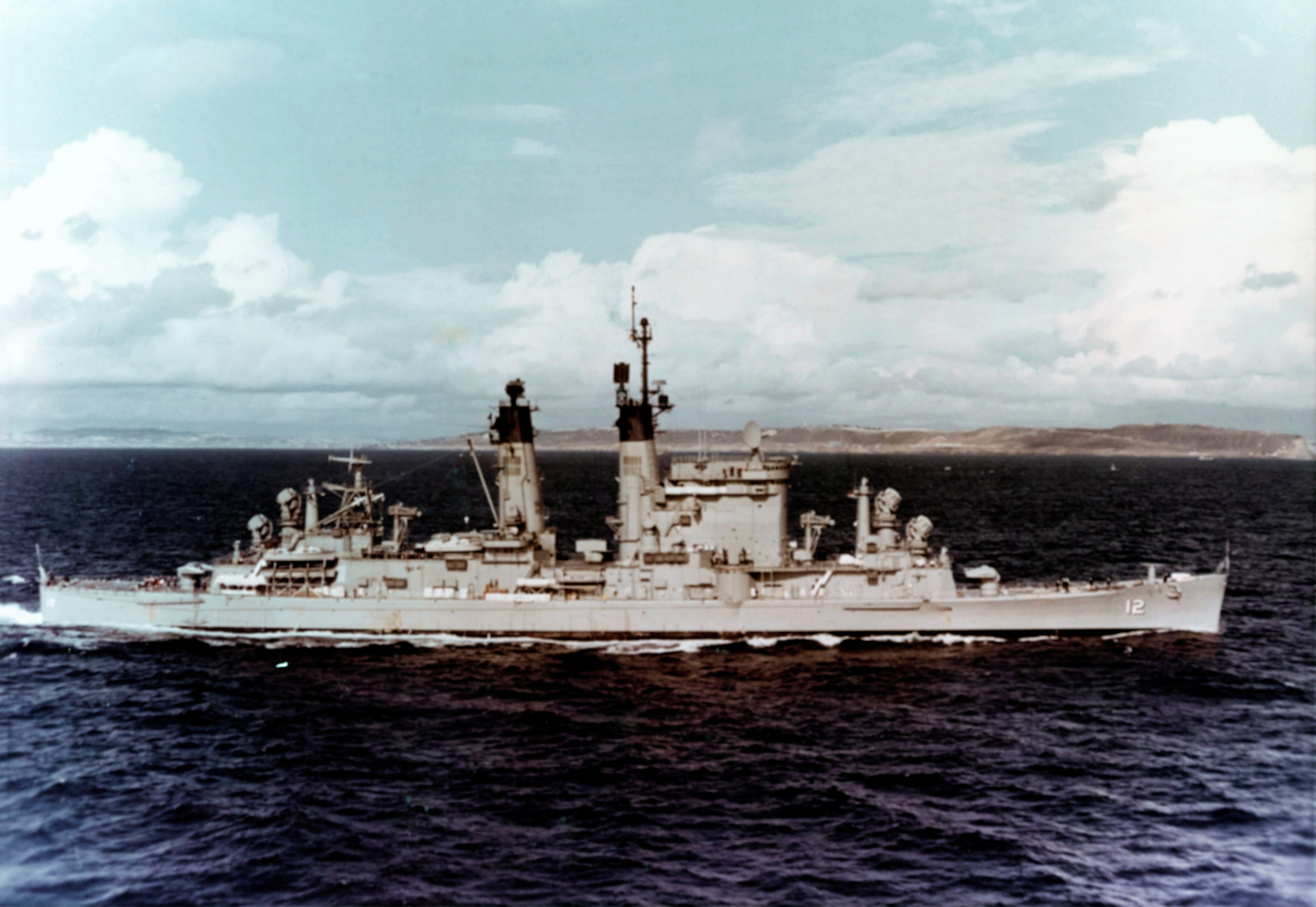 The U.S. Navy guided missile cruiser USS Columbus (CG-12) underway off San Diego, California (USA), 19 February 1965.